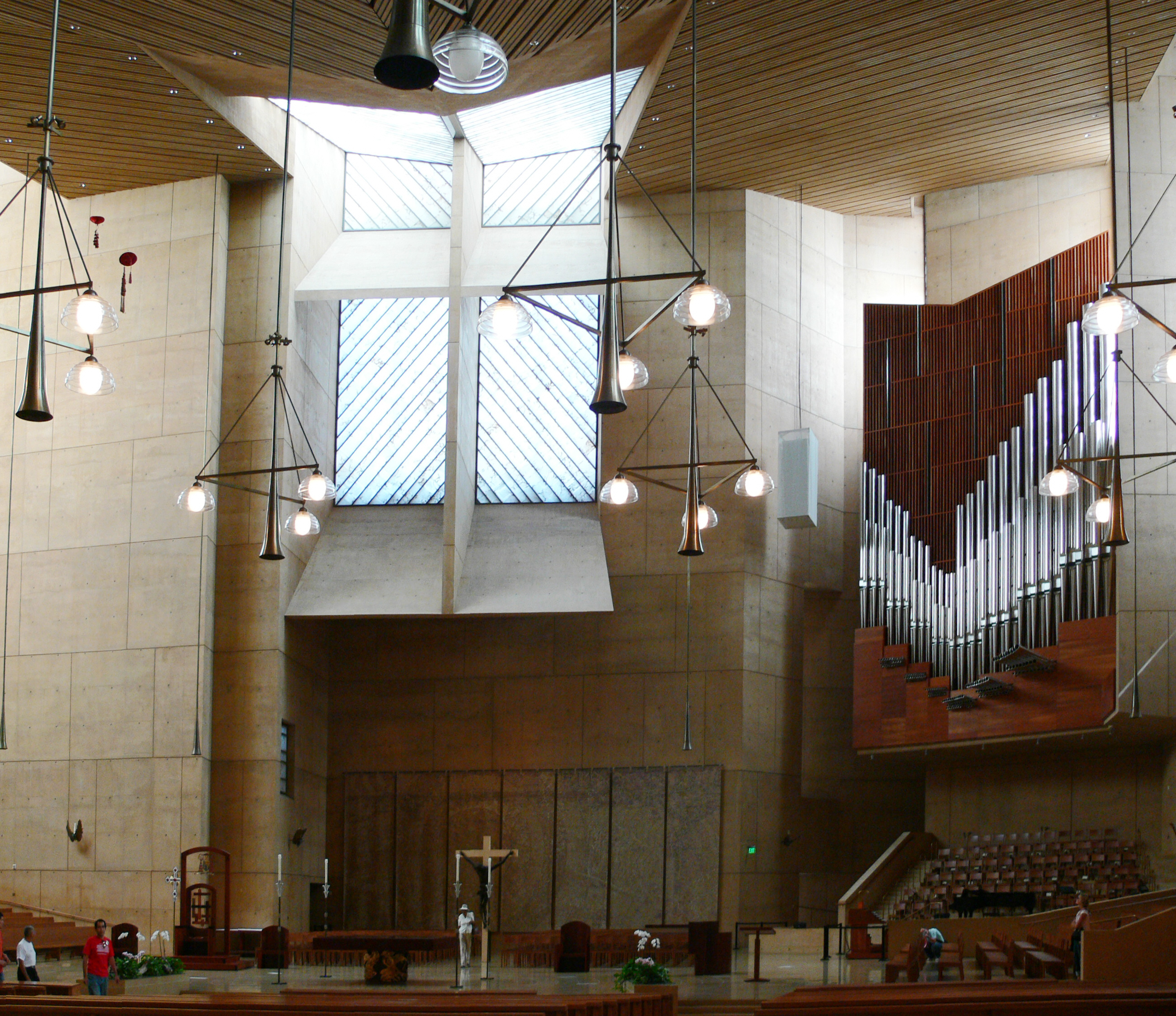 Roman Catholic Cathedral of Our Lady of the Angels, Los Angeles, California View of the Interior